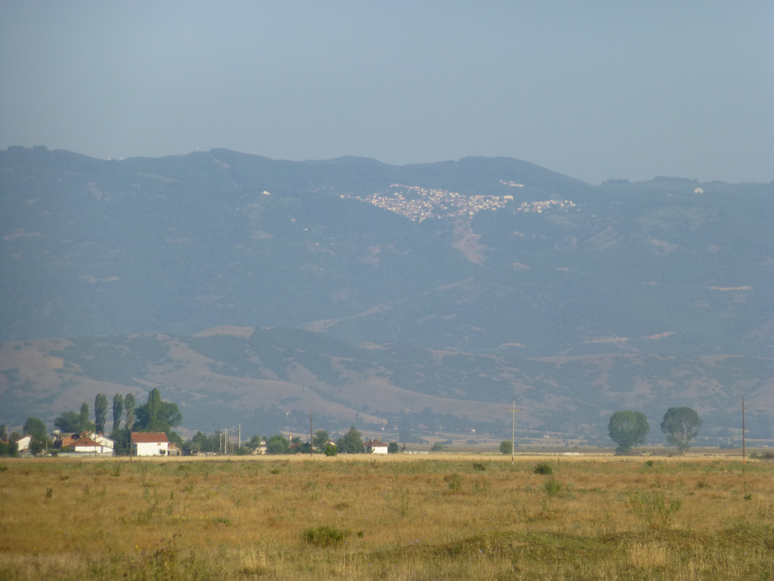 A view of Buševa Planina, with the town of Kruševo and the Makedonium memorial on its slope, from the Prilepsko Pole (Prilep Flatland). The photo is taken from Hwy R1306, going from Prilep toward Krivogaštani early in the morning. The town of Kruševo, with the Makedonium memorial can be seen on the hillside far in the west